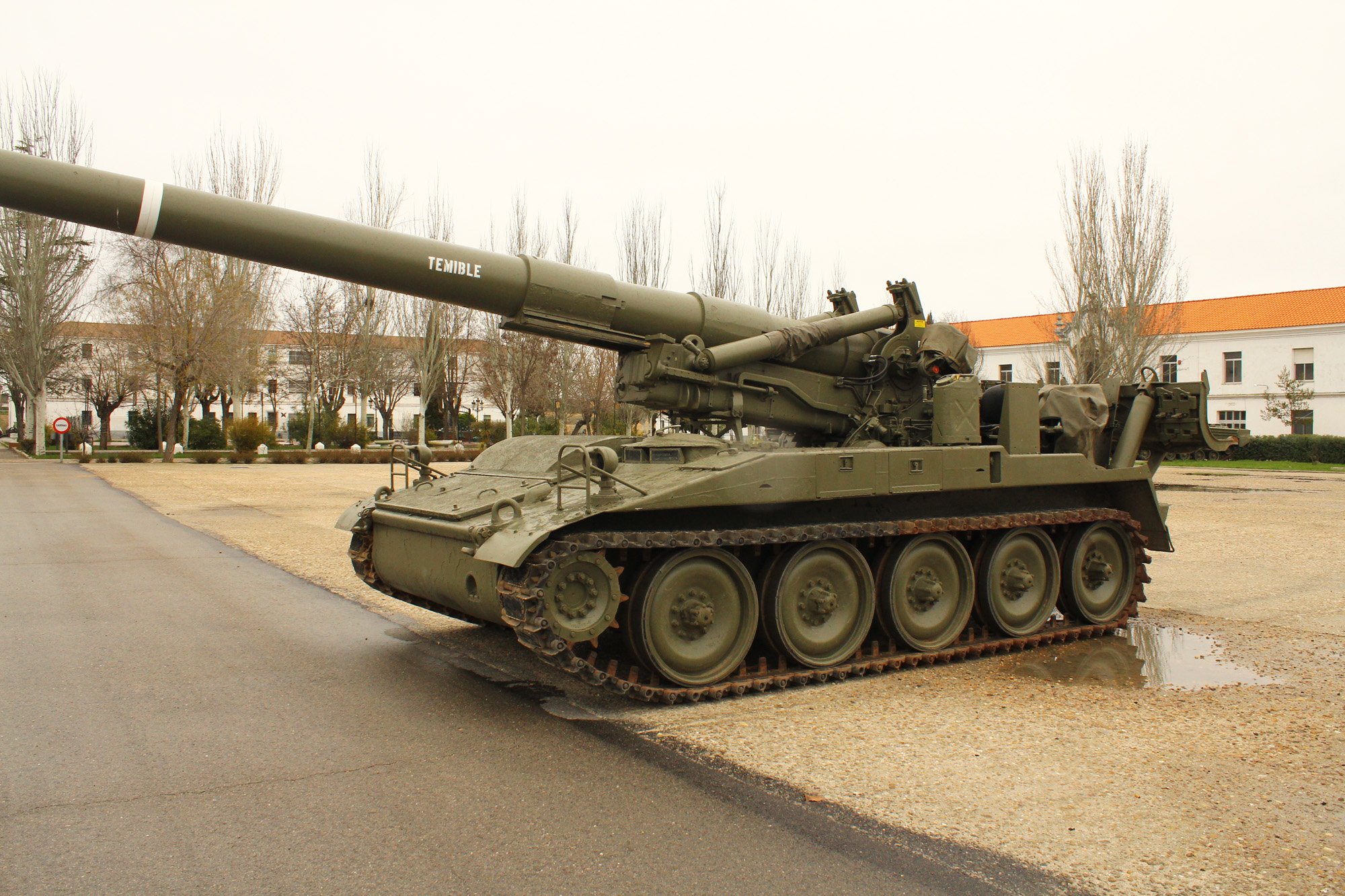 Obús autopropulsado M-110, de 203 mm. Es un desarrollo del obús autopropulsado M-107 de 1962. El M-110 empezó a fabricarse un año después en Estados Unidos. España actualizó sus 12 M-107 (recibidos en 1973) al modelo M-110A2 en octubre de 1988, y recibió 24 M-110A2 en 1993 procedentes del Ejército de Estados Unidos. Los últimos ejemplares en activo de este vehículo, pertenecientes al Regimiento de Artillería de Campaña nº63 con base en León, fueron retirados en 2009 para su desguace. Uno de ellos se salvó del soplete para ser conservado en el museo de El Goloso. Armored Units Museum of El Goloso M-110 self-propelled howitzer of 203 mm. It is a development of the M-107 self-propelled howitzer of 1962. The M-110 went into production a year later in the United States. Spain updated its 12 M-107 (received in 1973) to the version M-110A2 in October 1988, and received 24 M-110A2 in 1993 from the U.S. Army. The last active units of this vehicle, belonging to the Field Artillery Regiment No. 63 based in León, were removed in 2009 for scrapping. One of them was saved from the torch to be preserved in the museum of El Goloso.